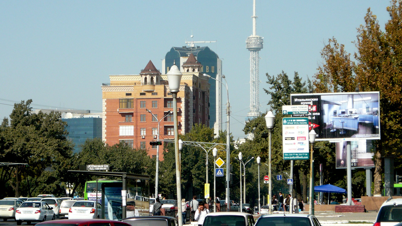 Tashkent Downtown